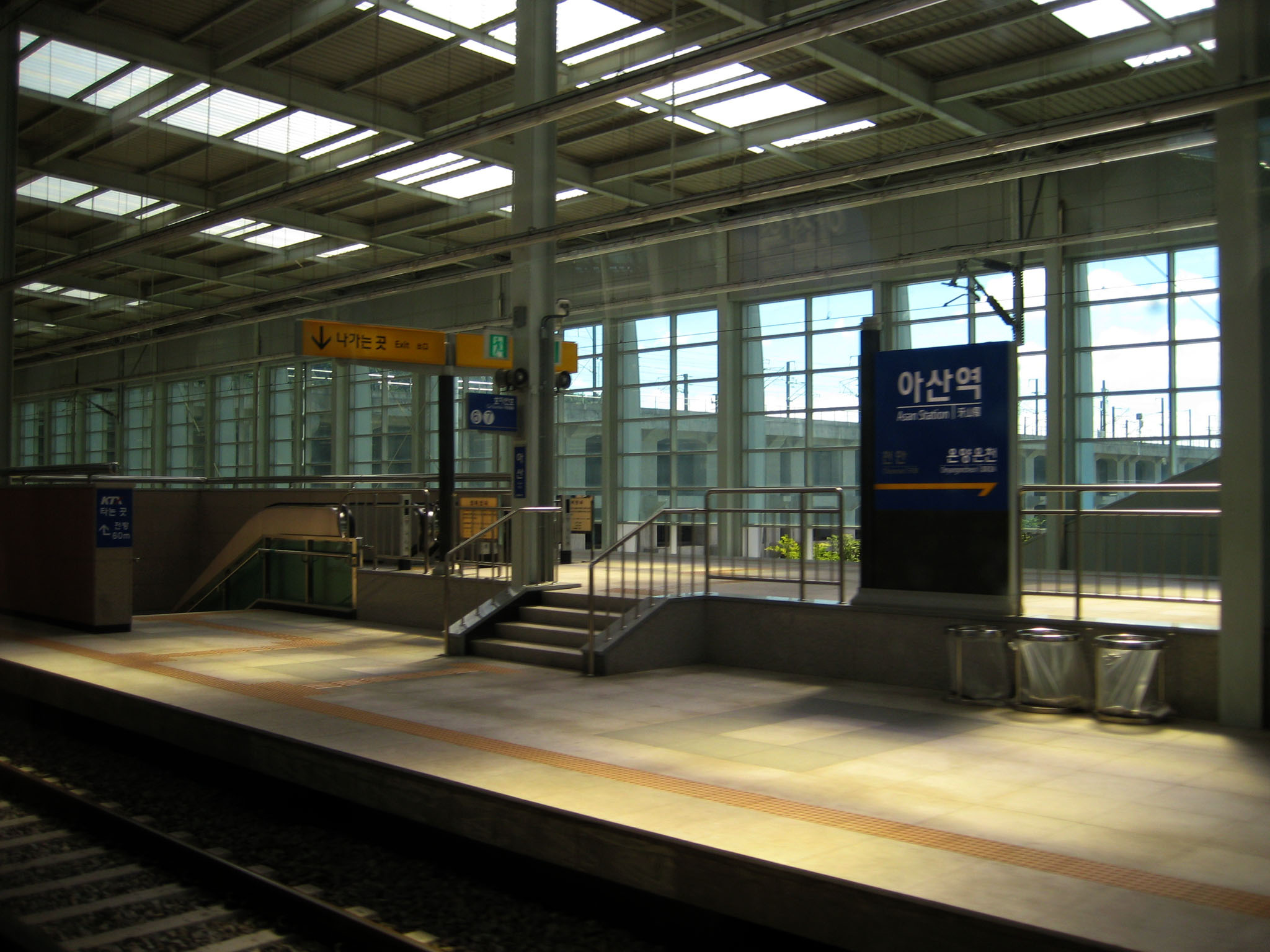 Janghang Line Asan Station